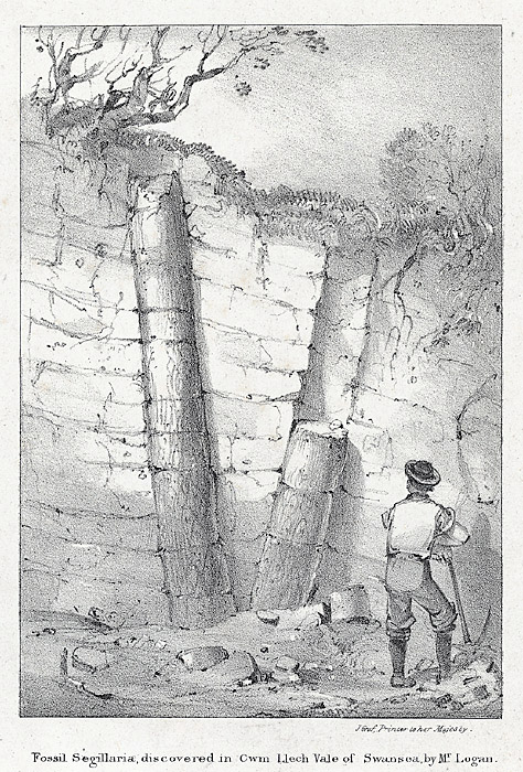 An image showing a man viewing fossils.